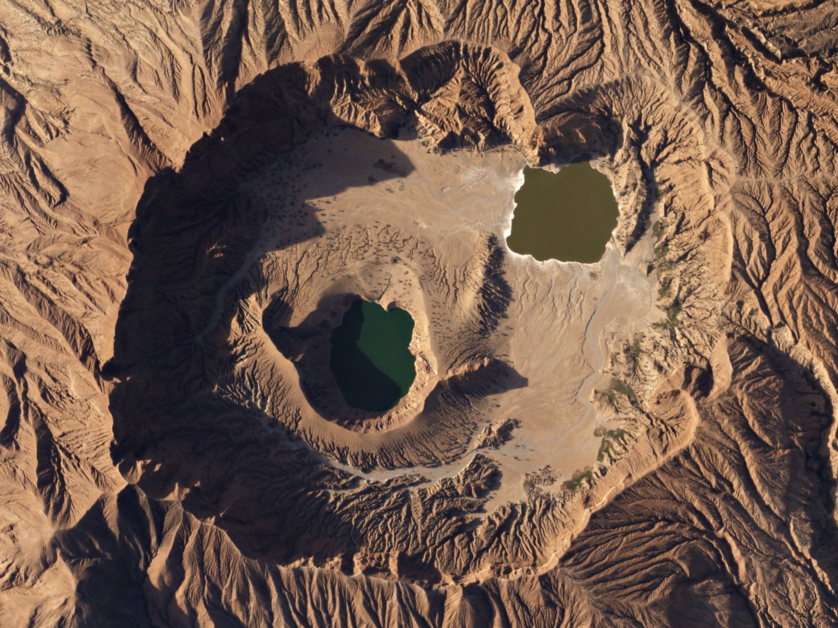 Jebel Marra Volcano, Sudan April 26, 2016 Deriba Caldera sits at the summit of the Jebel Marra Volcanic Field. Scientific expeditions to the volcano in the 1960s discovered active fumaroles and warm springs, which suggest it’s not entirely extinct.